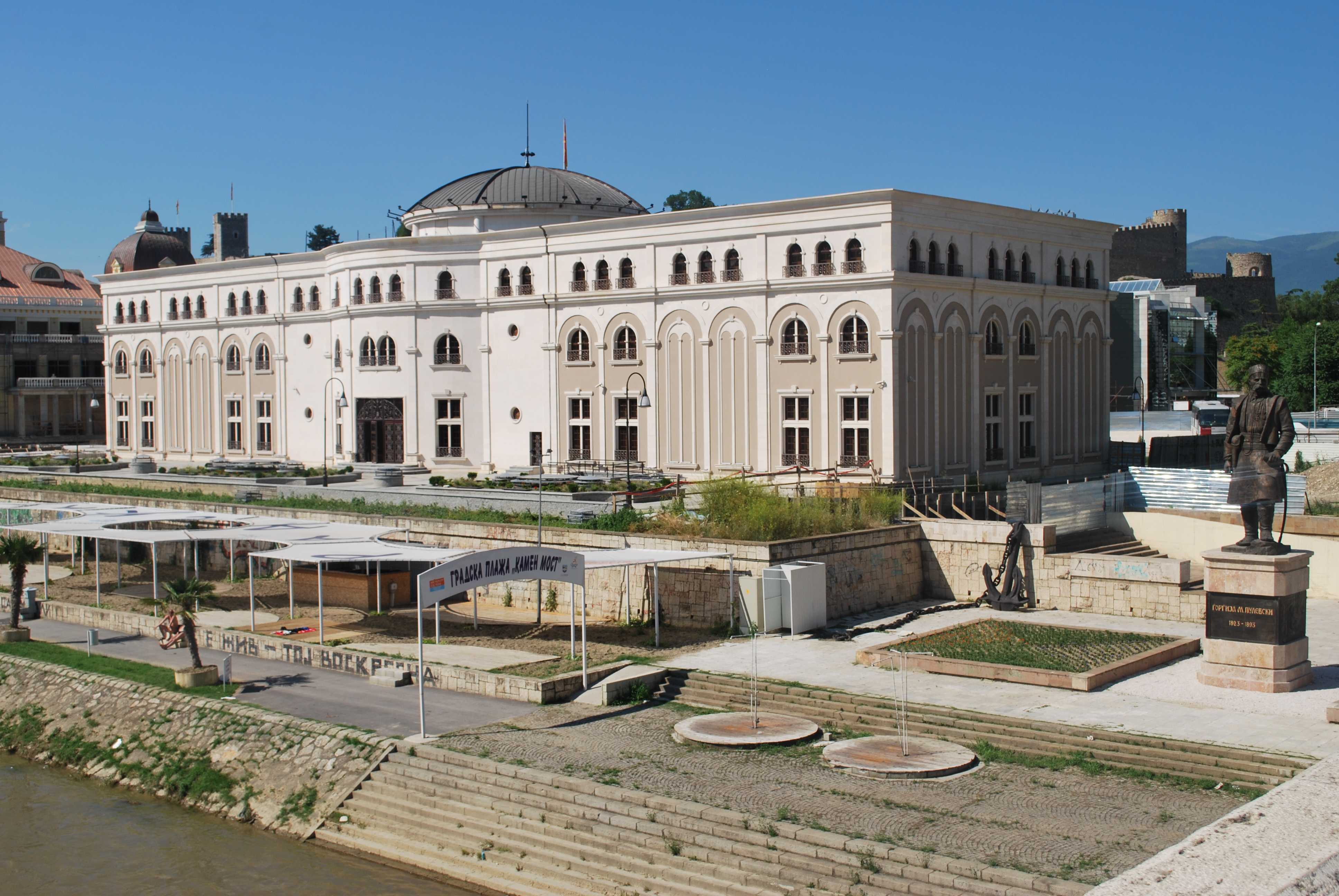 Museum of the Macedonian Struggle for sovereignity and independence - " Museum of VMRO and Museum of victims of communist regime" in Skopje, Macedonia.